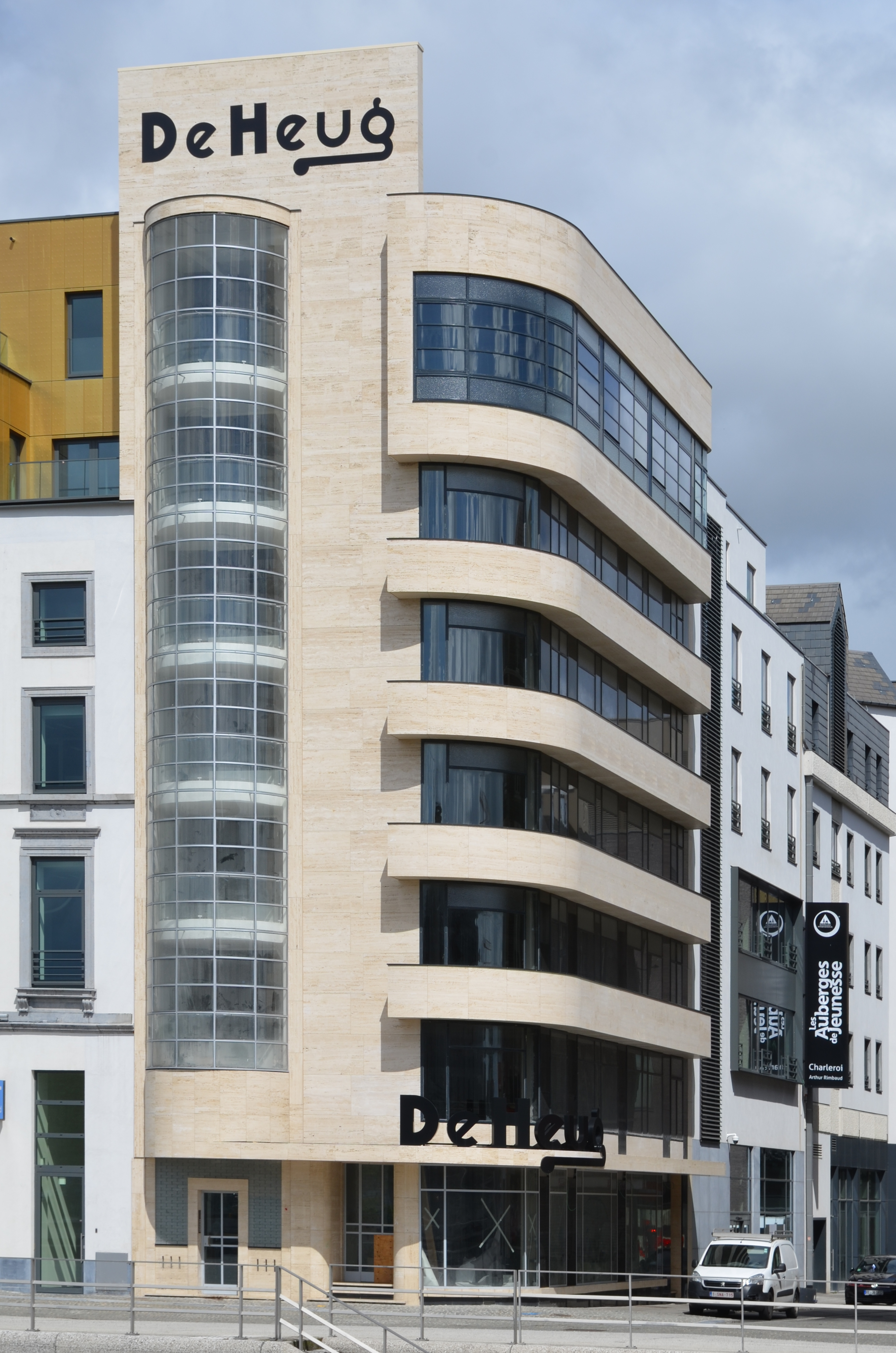 Building called "Pianos De Heug". Quai Arthur Rimbaud, 5, 6000 Charleroi (Belgium). Construction in 1933. Situation of the restoration at the end of April 2019. Architect Marcel Leborgne.